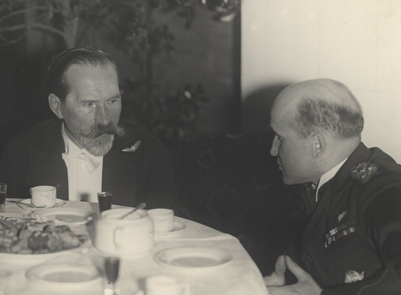 Lithuanian President Antanas Smetona and officer of the Lithuanian Armed Forces Antanas Gustaitis.